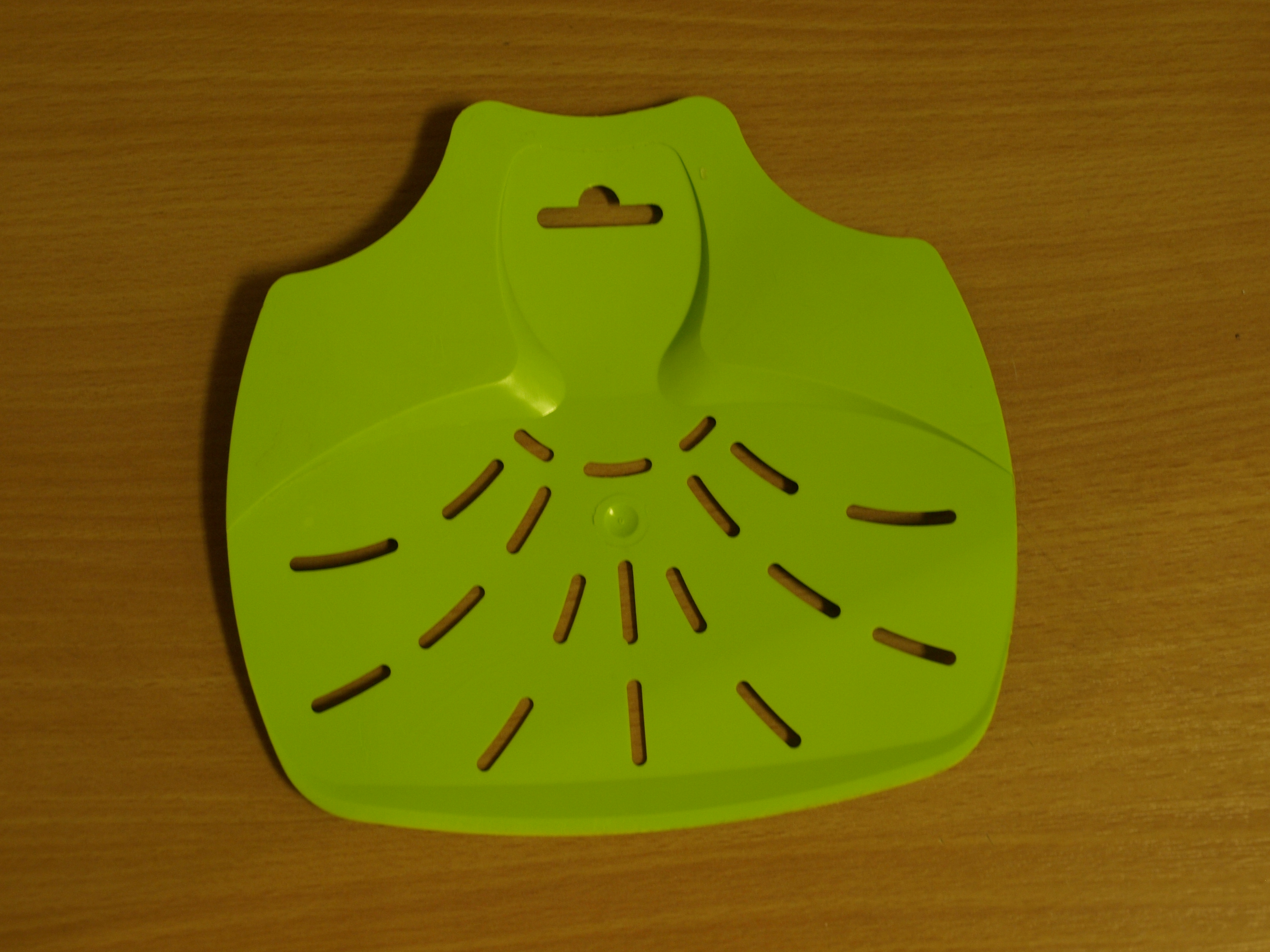 Kitchenware used for removing waste from the sink.